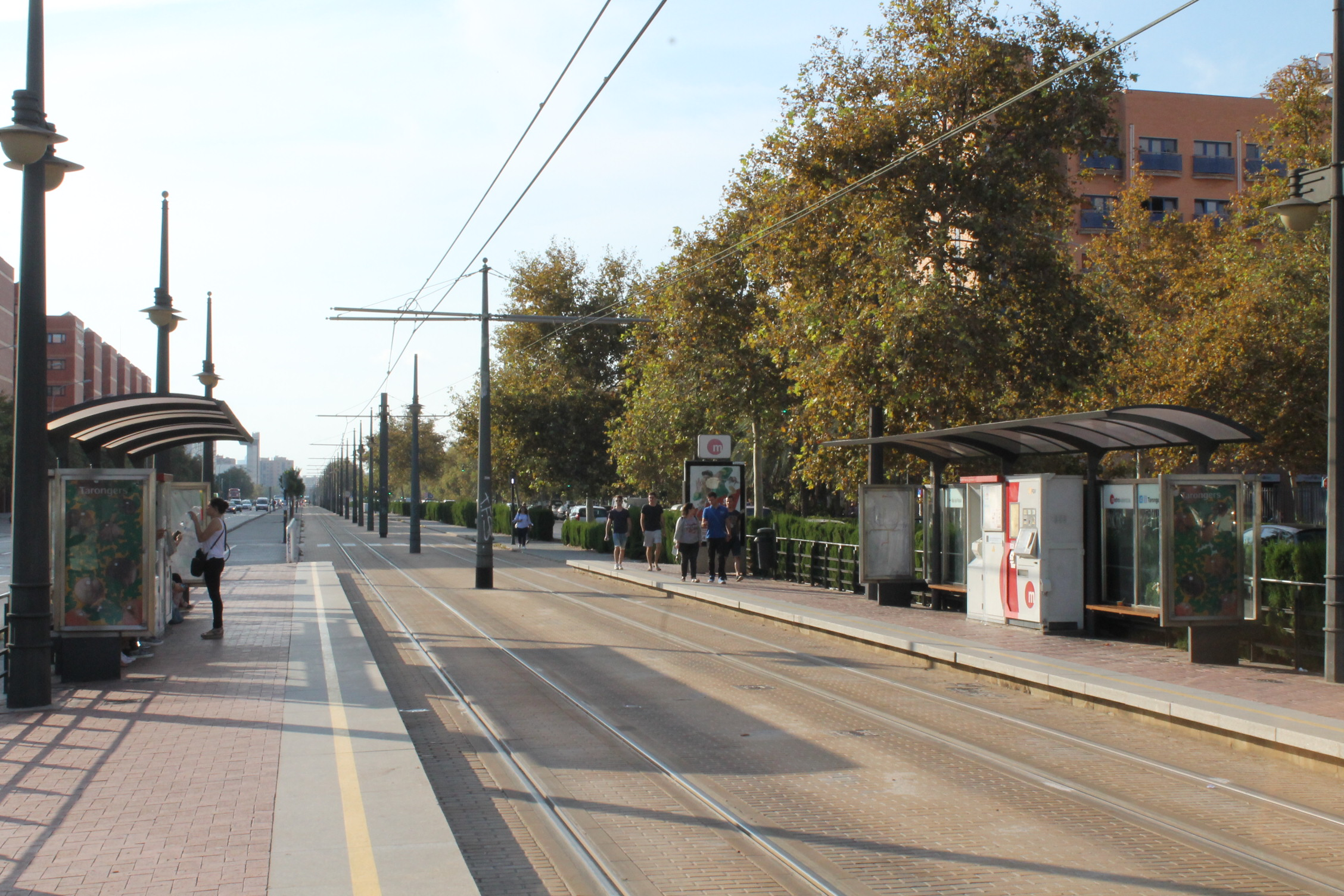 Platforms of the Tarongers station of Metrovalencia.